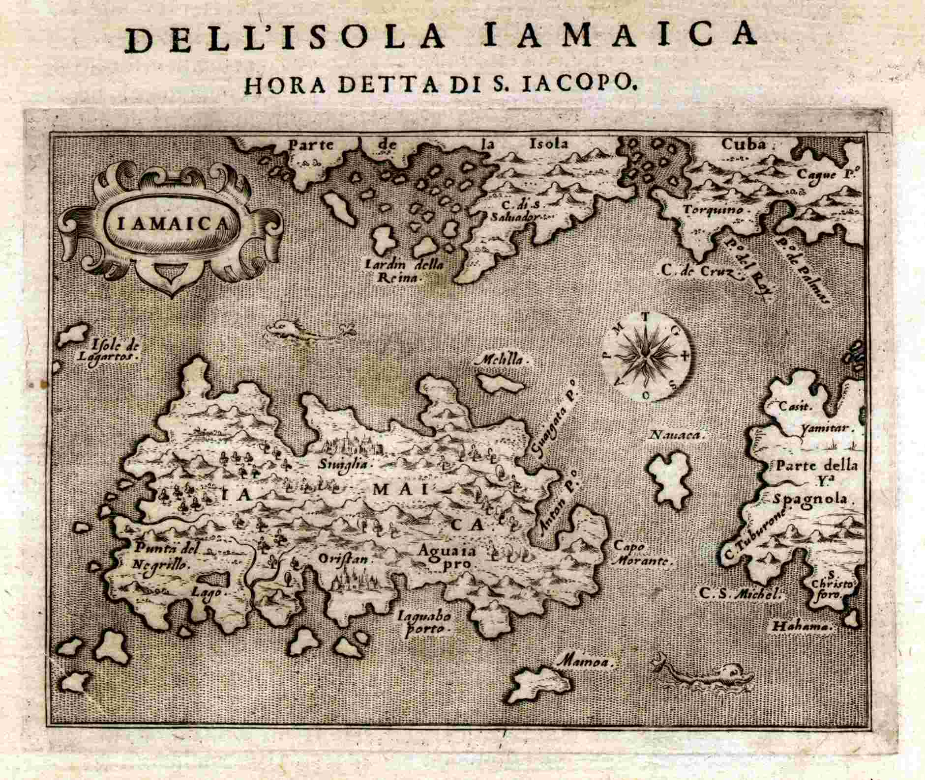 From [1]: “An early map of the Jamaica issued by Tomaso Porcacchi Castilione (1530-1585), and engraved by Girolamo Porro. The map is from Porcacchi's book L'Isole piu Famose del Mondo ... first published in Venice in 1572. Showing also part of Cuba...”